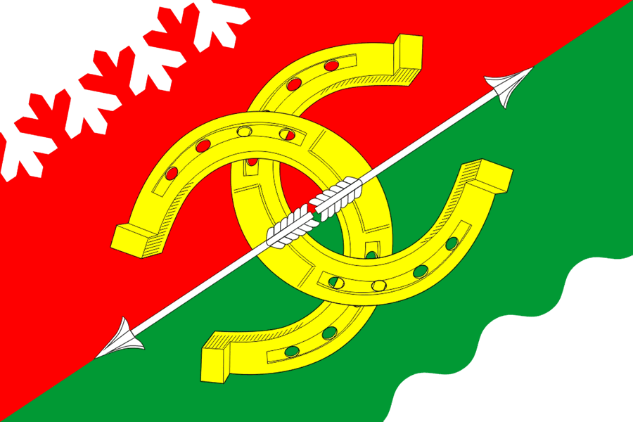 Flag of Tosnenskoe urban settlement, Leningrad Region, Russia